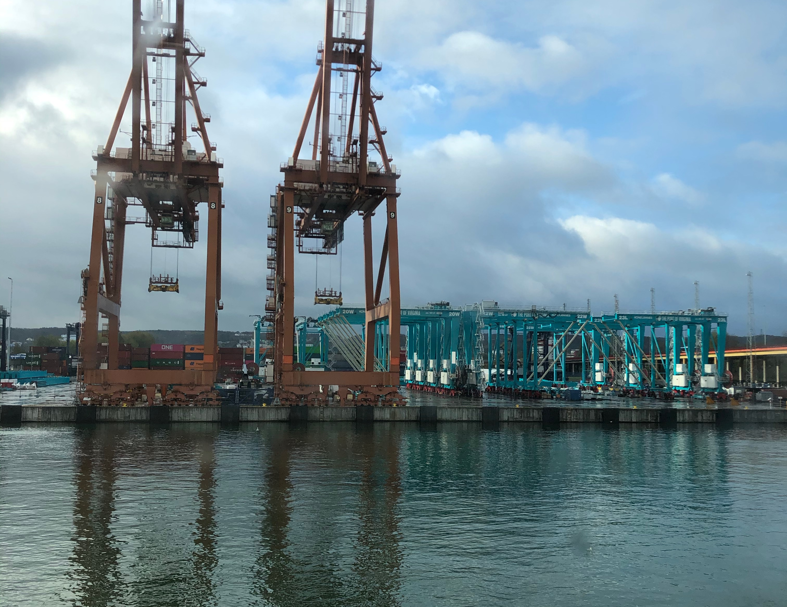 Port of Gdynia, Poland